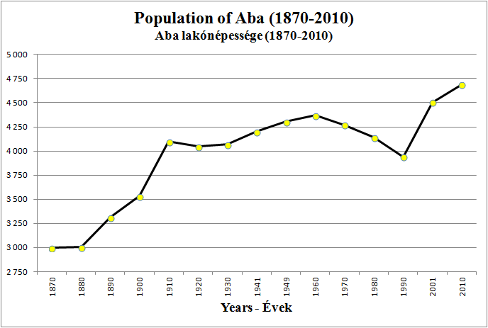 Aba's population (1870-2010). Reference of Datas: Hungarian Central Statistical Office